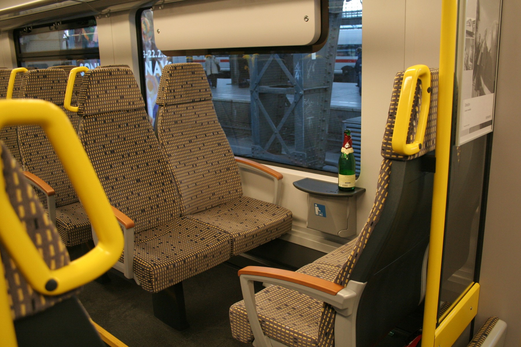 Group of seats inside an Desiro Mainline II EMU